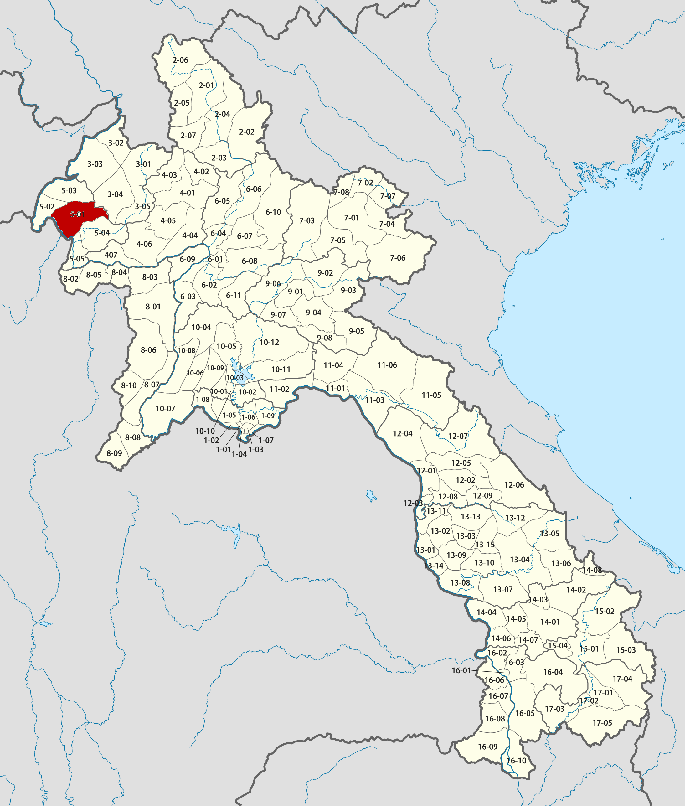 Houaixai District in Laos